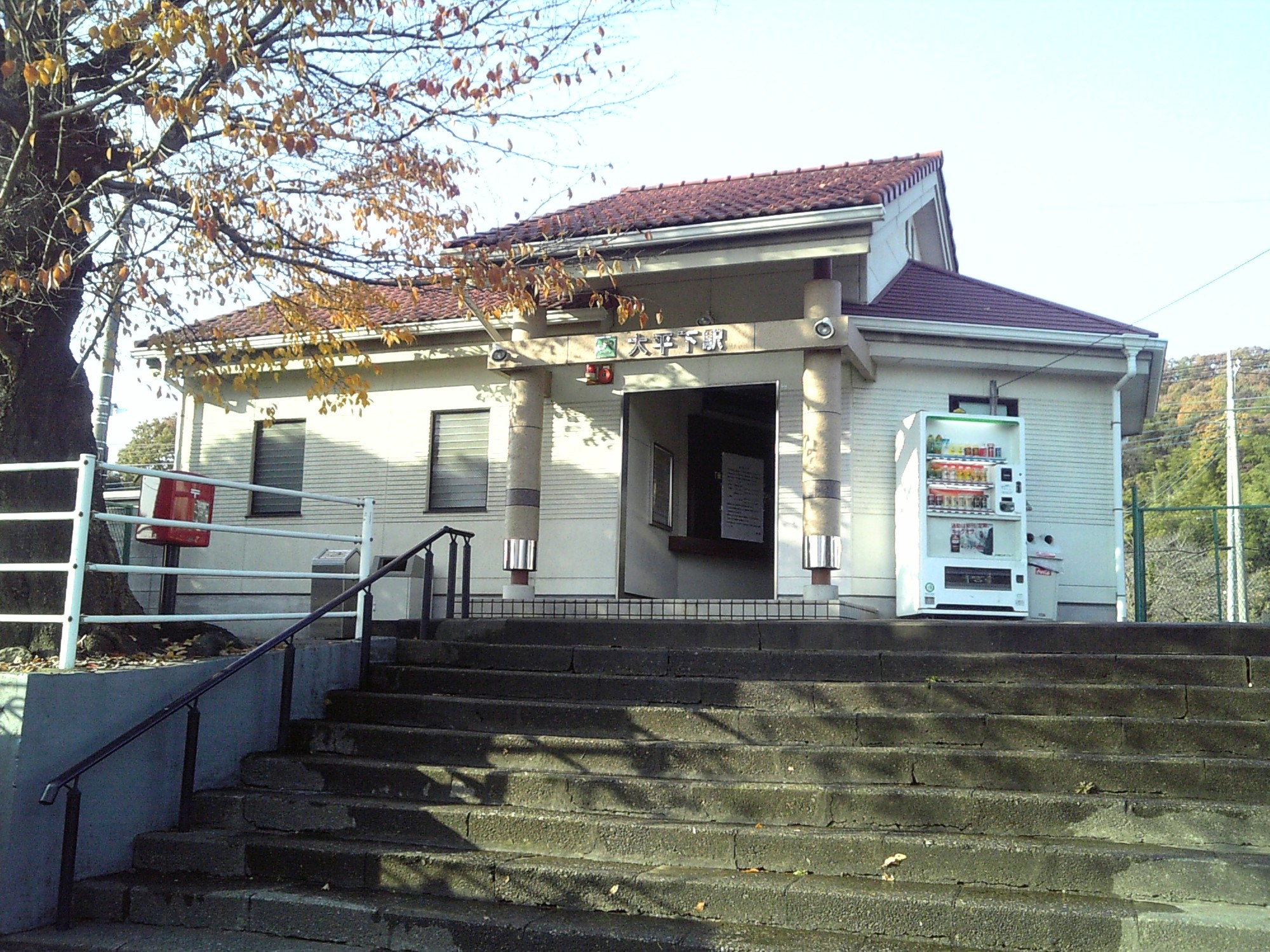 JR East O'hirashita station. 大平下駅